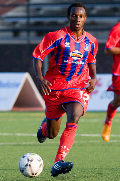 Cameroonian midfielder/forward, Matthew Mbuta, playing for Crystal Palace FC USA in a soccer match at UMBC Stadium in Catonsville MD on May 31 2008 against the Charlotte Eagles in the United Soccer Leagues 2nd Division.